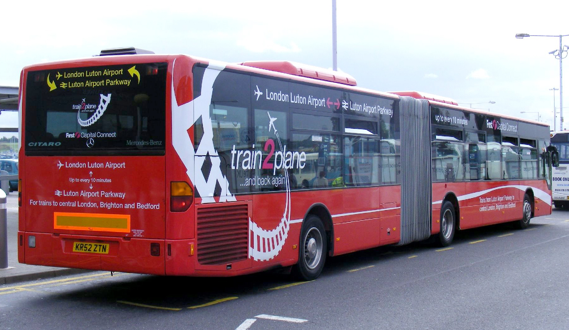 FirstGroup bus 11034 (reg. KR52 ZTN), a 2002 Mercedes-Benz O530 Citaro G articulated single-decker, pictured at Luton Airport, Bedfordshire. It's branded for and operating the First Capital Connect train2plane shuttle service linking the airport with Luton Airport Parkway railway station, a short distance away. This red bus (and 2 similar others) were imported from Ireland (ex-B8, reg. 02 D 76210) from First's Aircoach subsidiary, and only saw brief use on this shuttle service alongside 1 ftr bus. Before this, the shuttle was operated by a fleet of 4 ftr buses, and afterwards by a fleet of 1 ftr and 3 other conventional Volvo artics, all wearing the train2plane branding but in purple base colours, not red. (the red was already on by these buses while at Aircoach). See Ftr#Luton train2plane for full details.